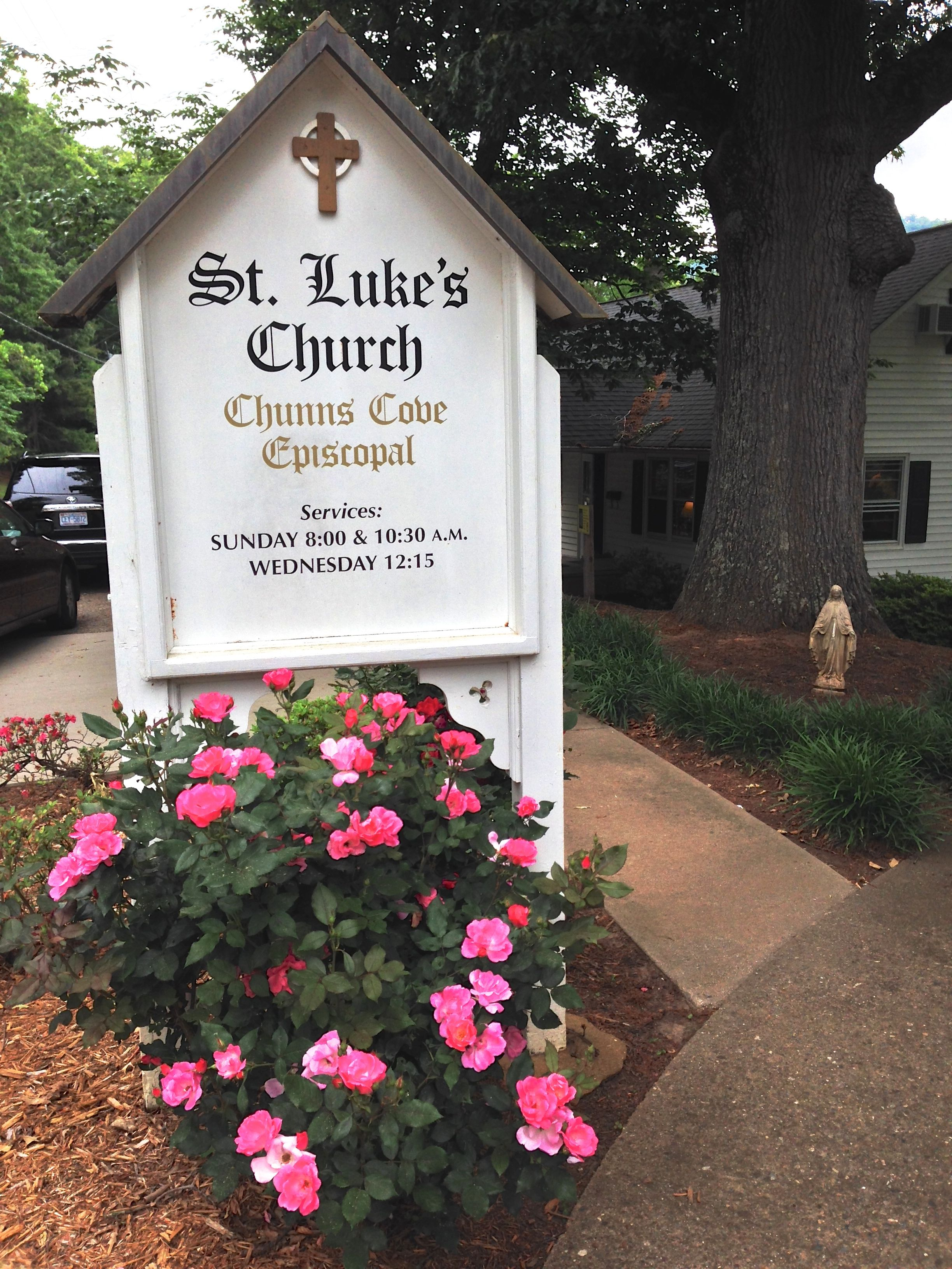 The sign's "roofline" mimics that of the church's own profile.